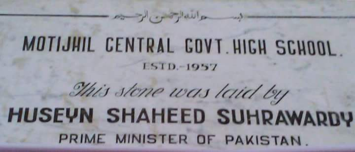 Foundation stone of Motijheel Govt. Boys' High School